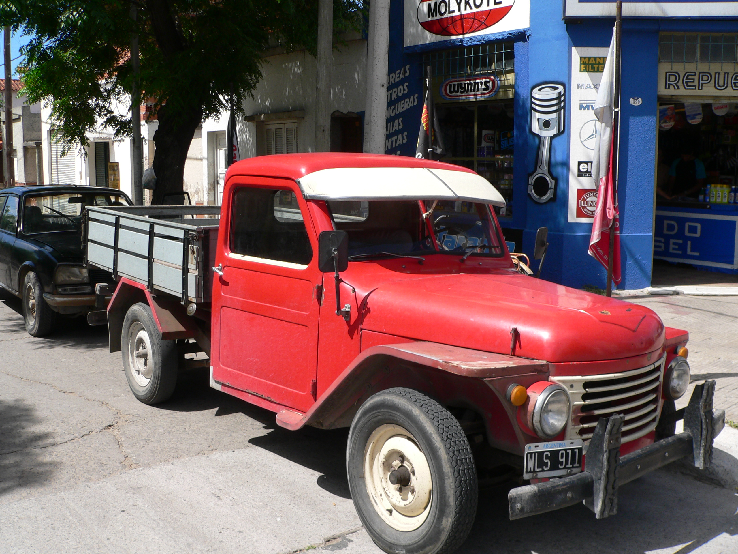 The Rastrojero was a small utility pickup truck with a capacity of half-ton designed by Raúl Gómez and built by the Argentine government-owned airplane (and vehicle) manufacturer IAME (Industrias Aeronáuticas y Mecánicas del Estado) from 1952 to 1980.